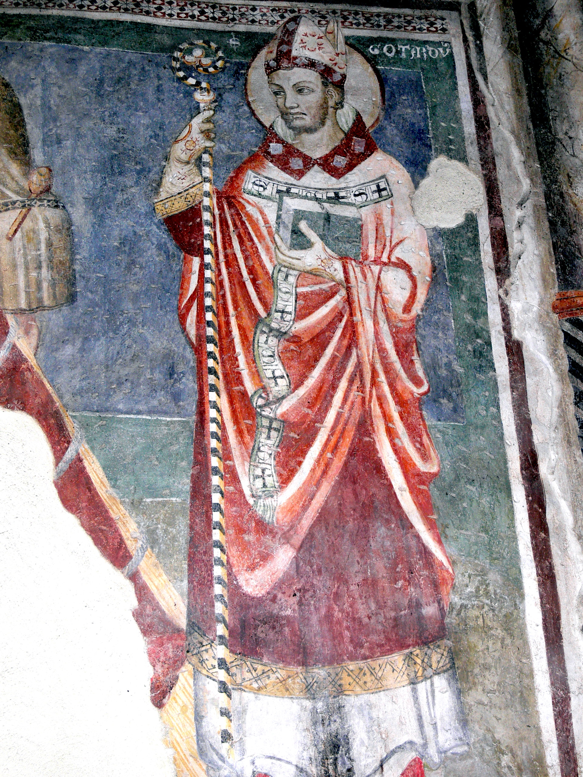 Corenno Plinio. Saint Thomas Becket church: Fresco of Saint Gotthard ( 14th century )